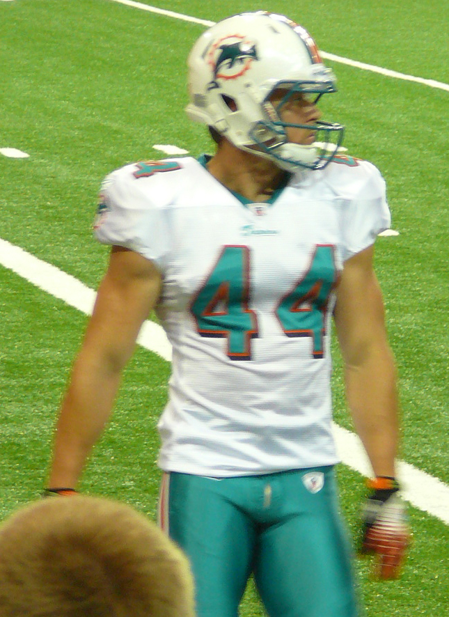 If used somewhere other than Wikipedia, Nelson, by name.